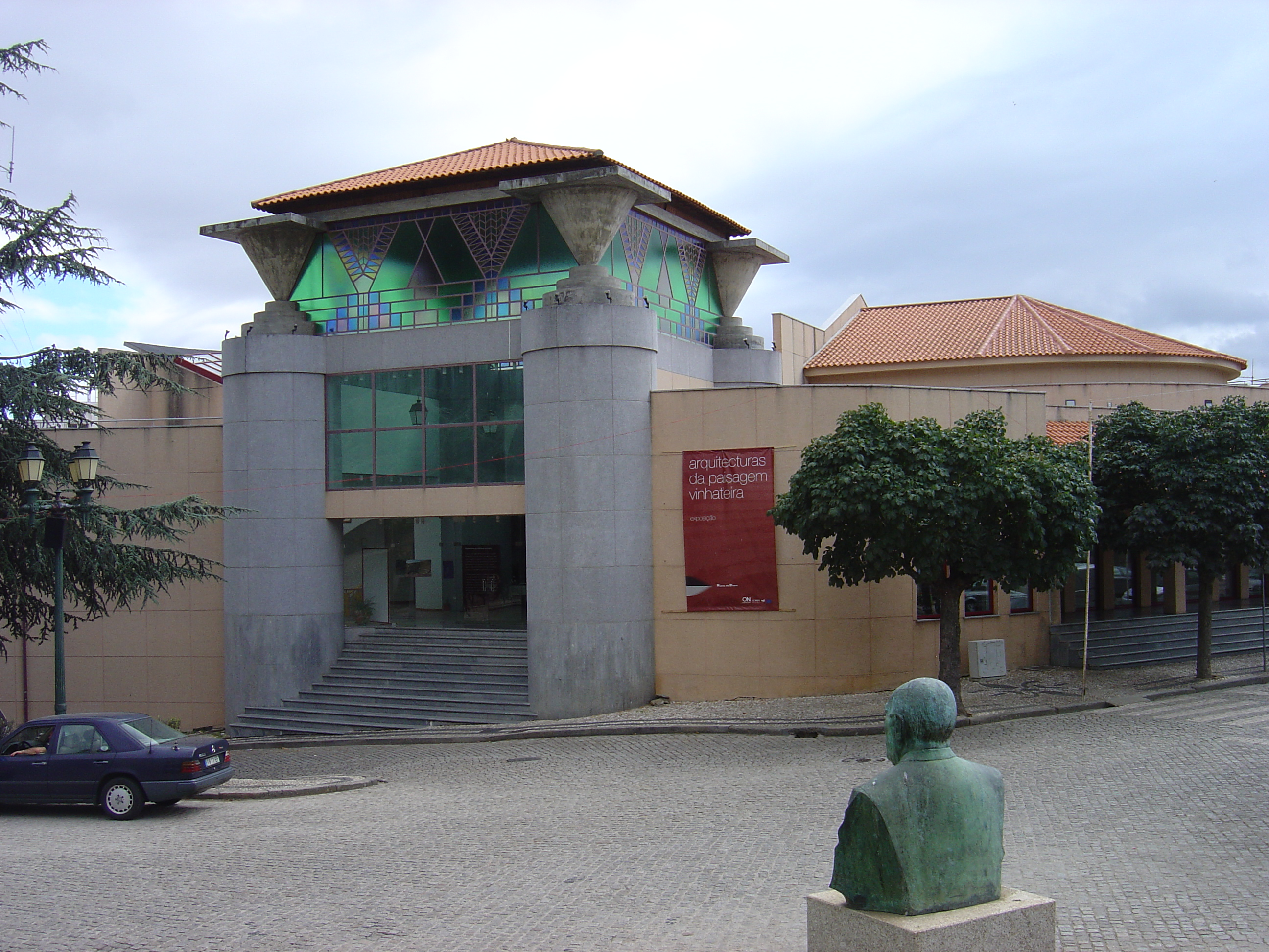 Vila Flor, Portugal